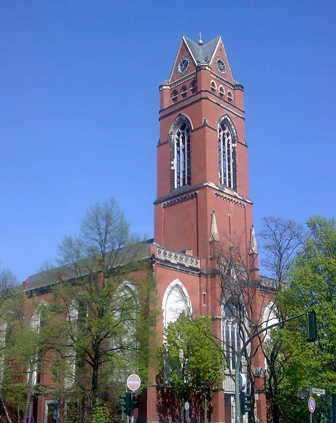 St. Matthias Catholic Church in Berlin-Schöneberg